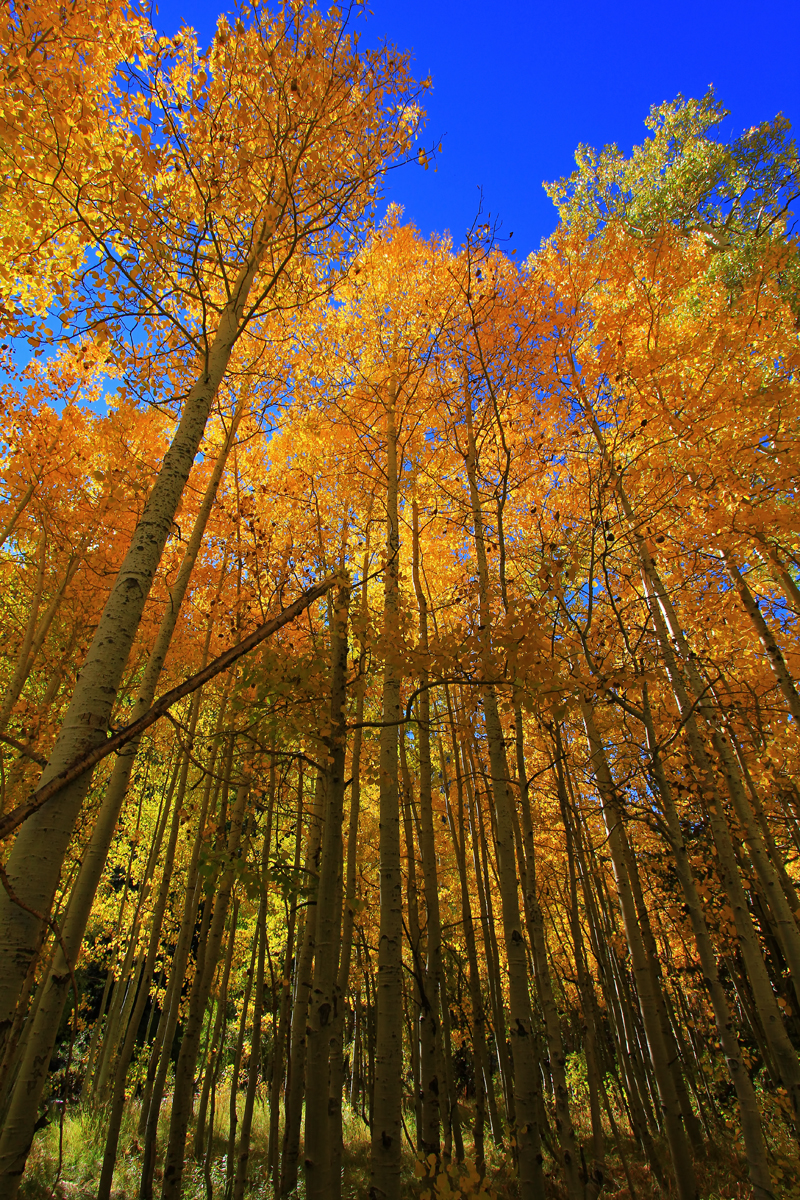 Aspens in Lee Vining Creek in the Fall